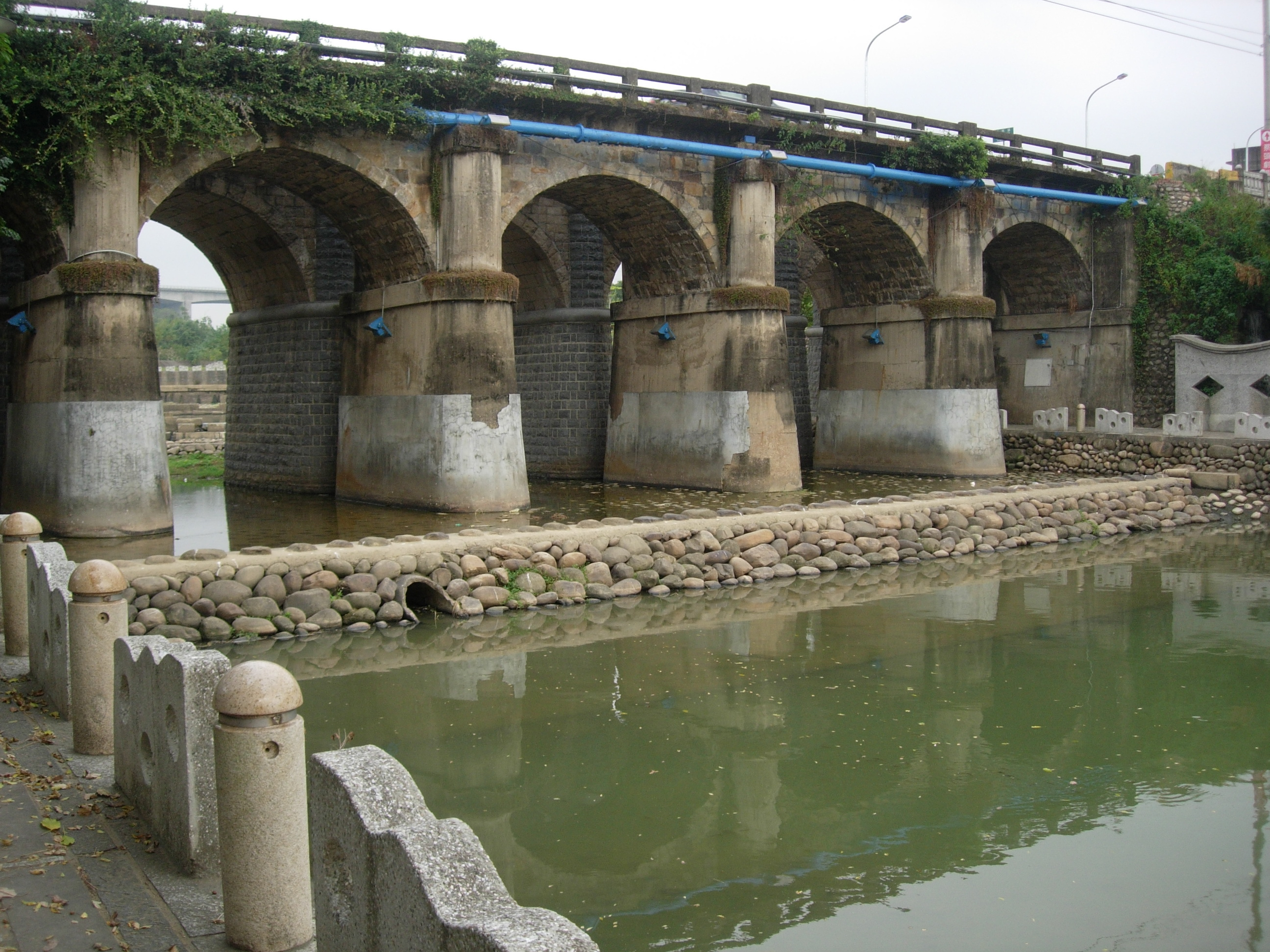 Kuanhsi TungAn Bridge.中文（台灣）: 關西東安橋。